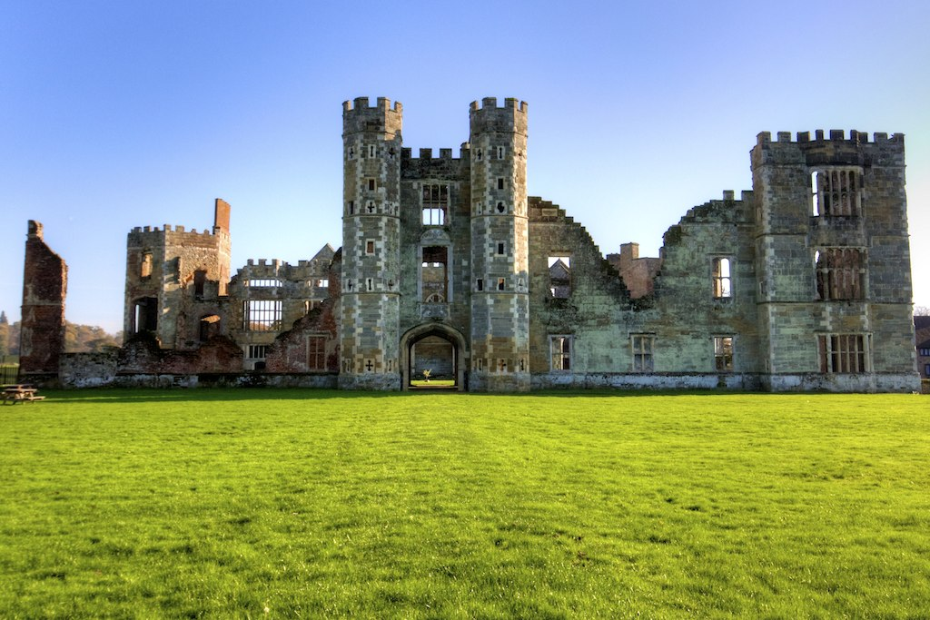 Cowdray House consists of the ruins of one of England's great Tudor houses, architecturally comparable to many of the great palaces and country houses of that time. It is situated just east of Midhurst, West Sussex standing on the north bank of the River Rother. It was largely destroyed by fire on 24 September 1793.